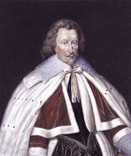 Thomas Savile, 1st Earl of Sussex